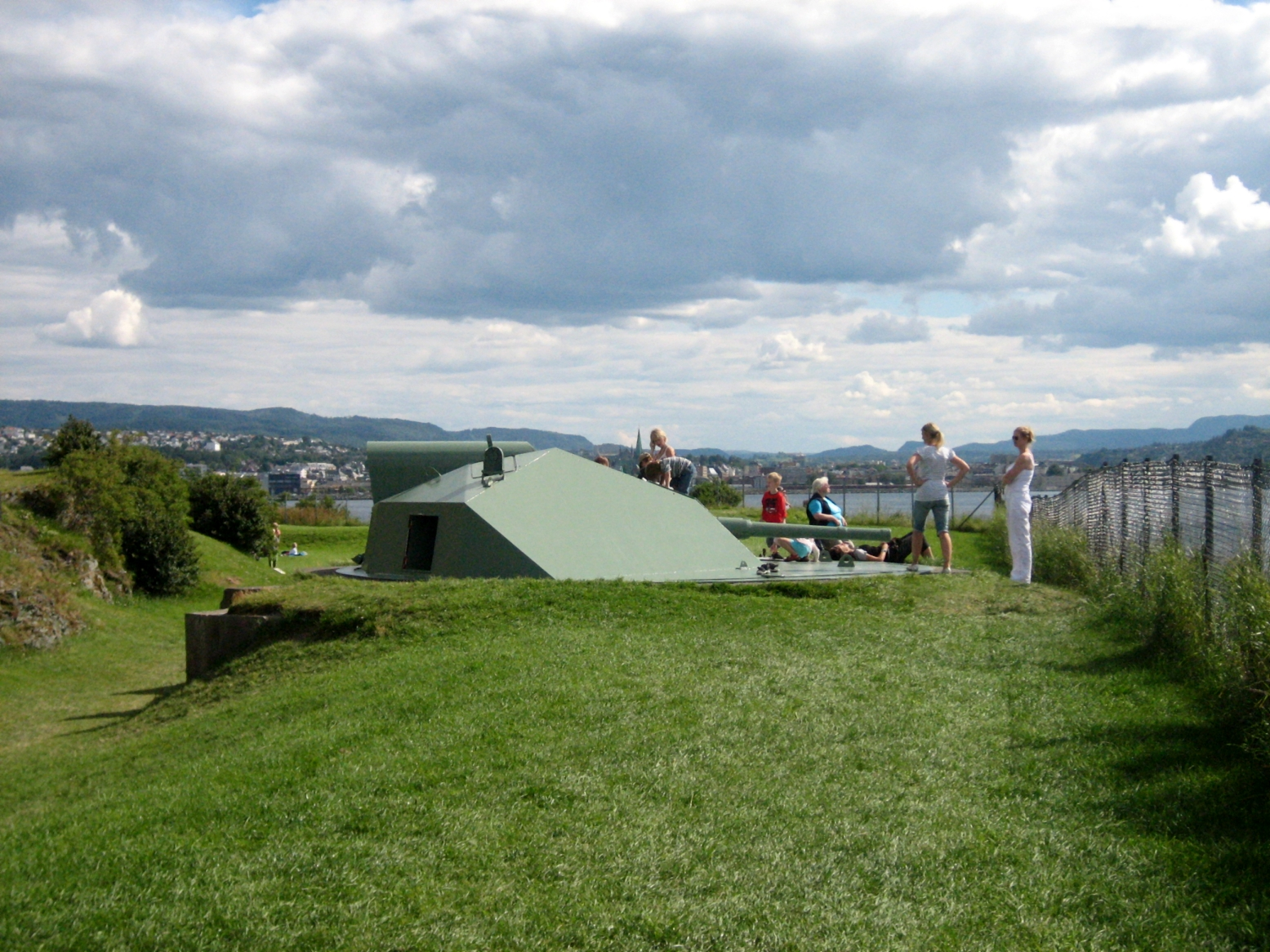 Remnant of World War II: a german coastal gun installed 1943 on the island Munkholmen, Trondheim/Norway